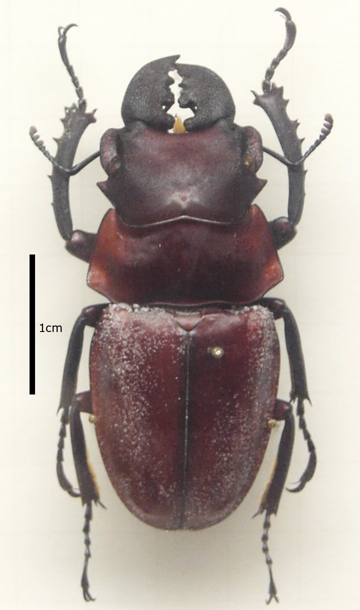 Odontolabis latipennis (Lucanidae), mounted specimen from Sumatra.